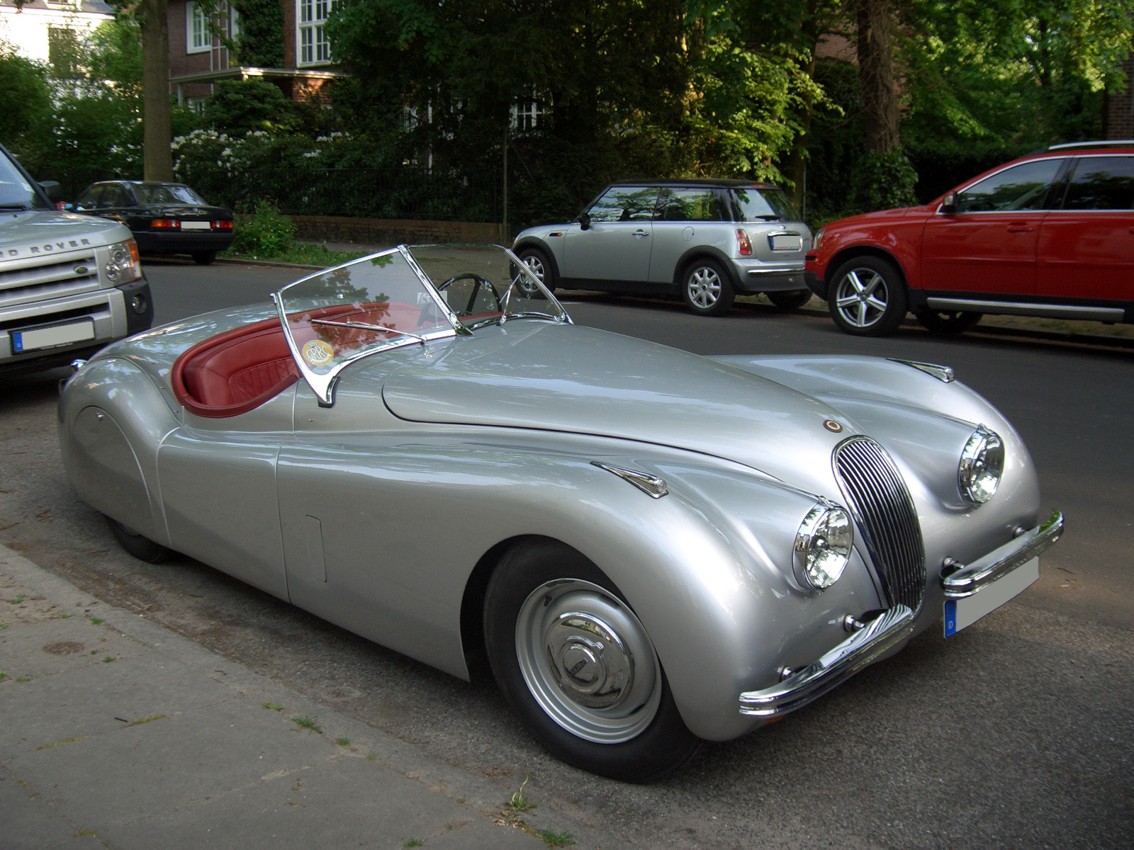 Jaguar XK120